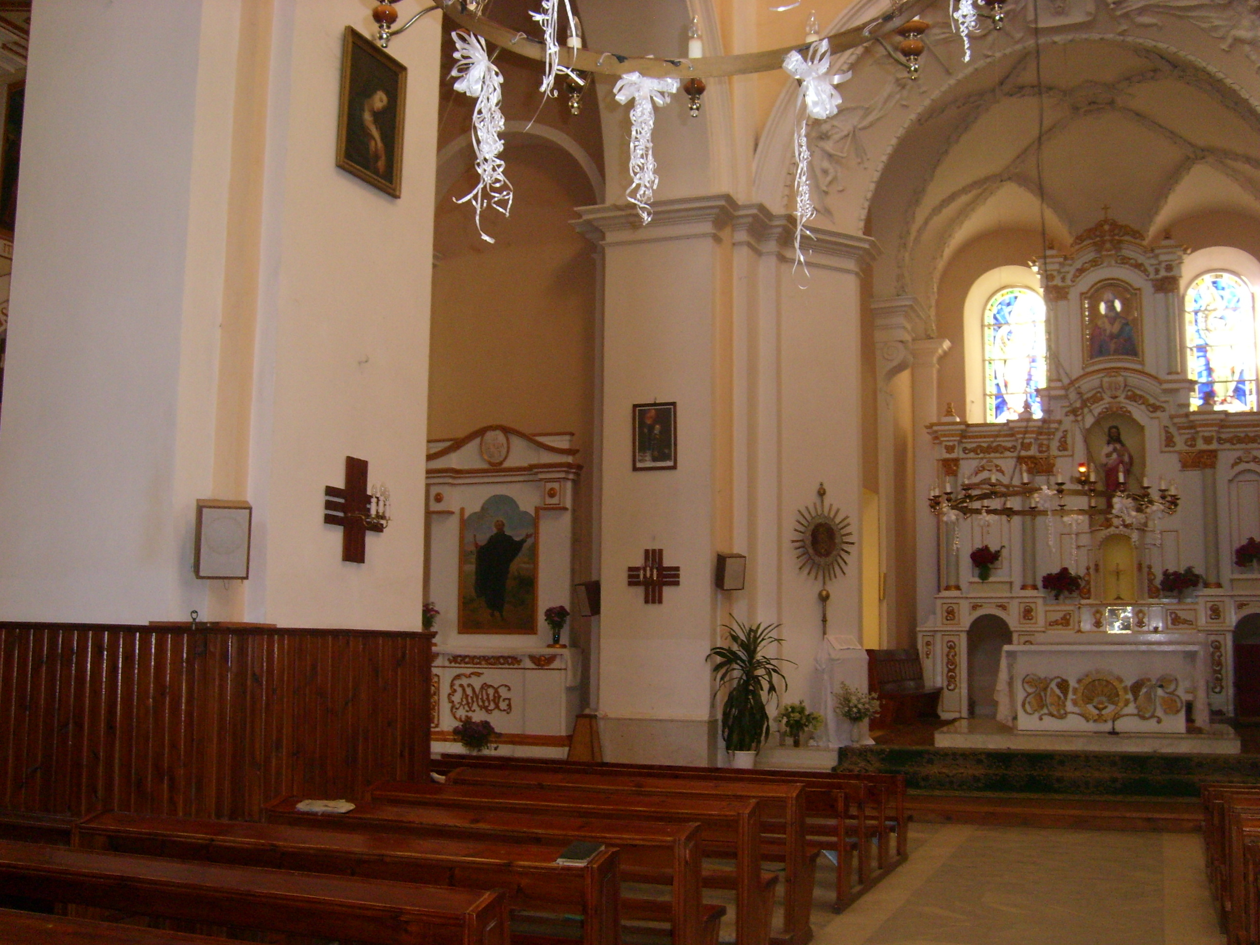 Беларуская (тарашкевіца): Мікалаеўскі касьцёл. г.п. Сьвір This is a photo of Belarusian heritage monument. Reference number: 612Г000454 ( WLM)